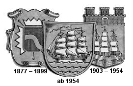 Historical Coat of arms of elmshorn Historische Wappen Elmshorns